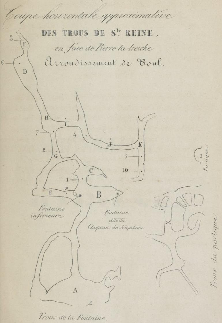 Plan of the Sainte-Reine cave (Pierre-la-Treiche, France) published by N. Husson in 1863 in "Notes pour servir aux recherches relatives à l'époque de l'apparition de l'Homme sur la Terre et importance d'un air abondant et pur" (1863)